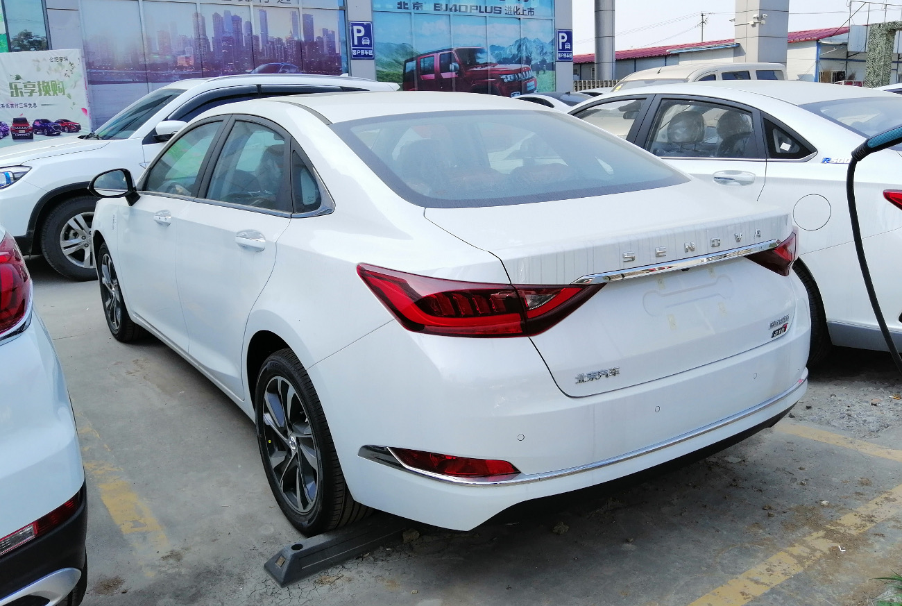 Senova Zhidao photographed in Hefei, Anhui province, China.